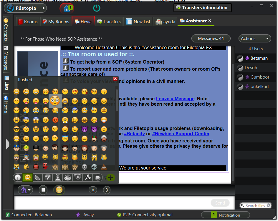 Emoticons in a chat